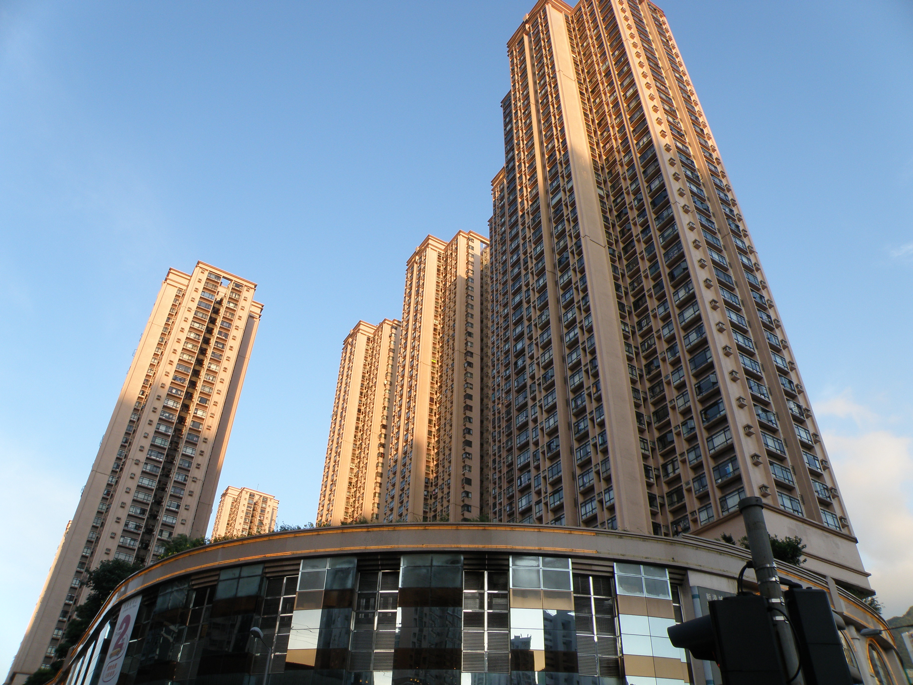 Sunshine City Phase 4 in Ma On Shan, Hong Kong.